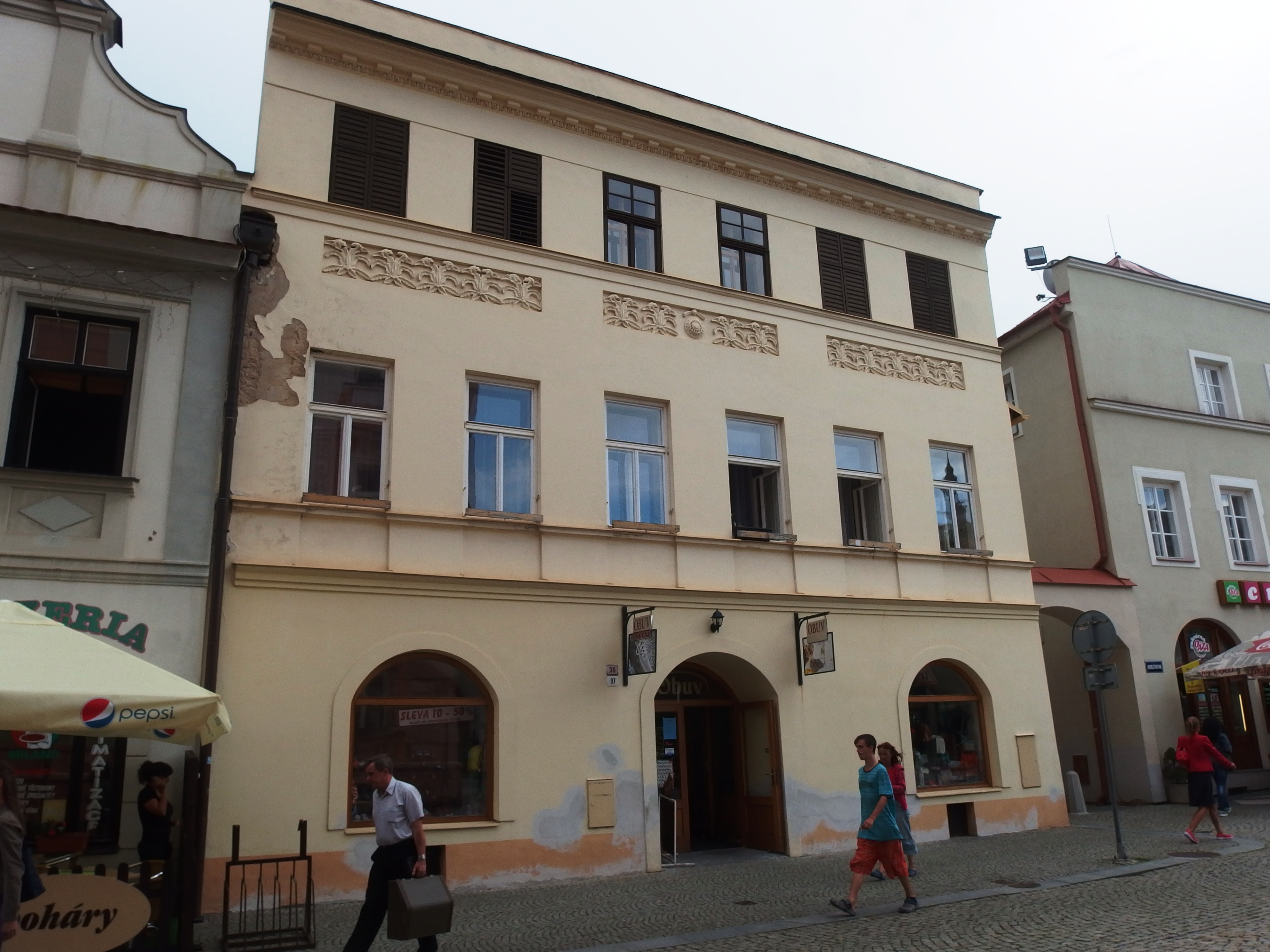 Krnov, Bruntál District, Czech Republic.